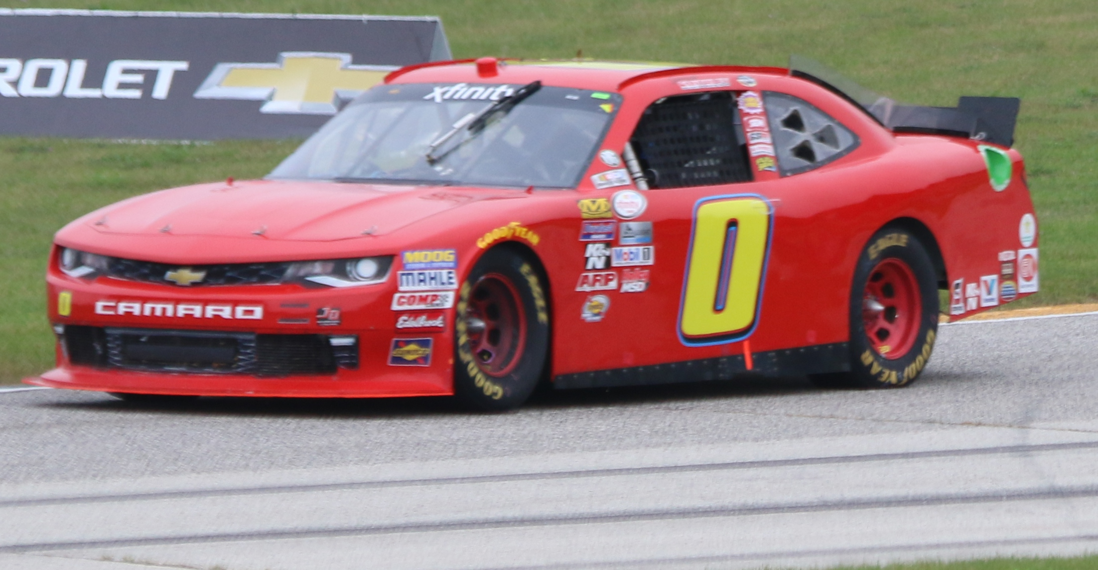 The Chevrolet Camaro of Garrett Smithley at the NASCAR Xfinity Series Road America 180.